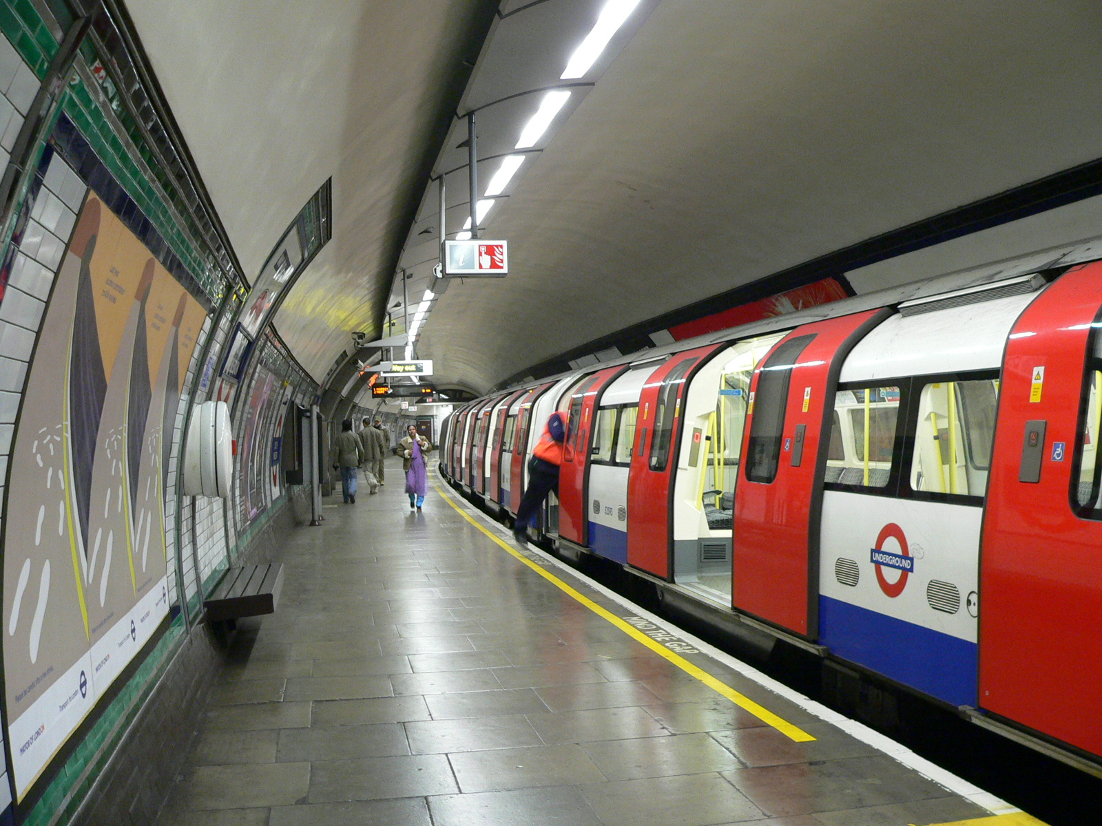 A terminating southbound London Underground 1995 Stock train at South Wimbledon tube station. Normally this is the penultimate stop for Northern Line trains, but engineering work on this Sunday meant that Morden was closed.